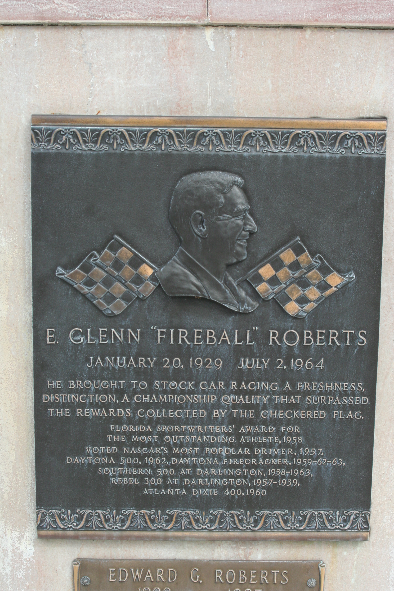 Shot by The Daredevil at Daytona during Speedweeks 2008